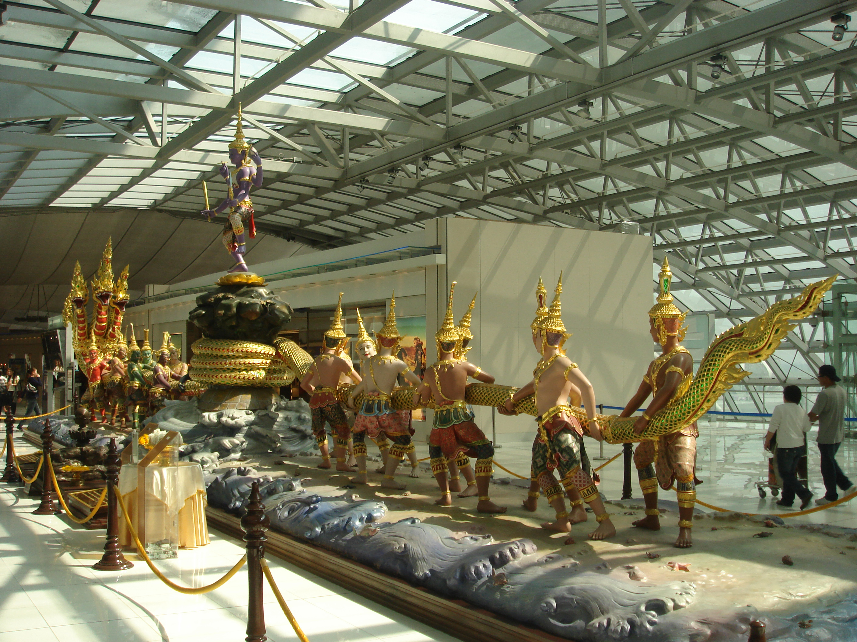 Churning of the Milky Way at Suvarnabhumi International Airport, Bangkok